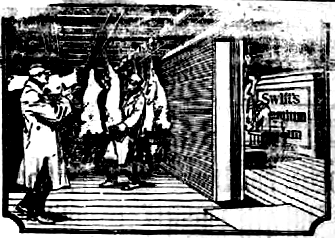 Extracted from the Swift ad as shown. Inside of a Swift refrigerator car.